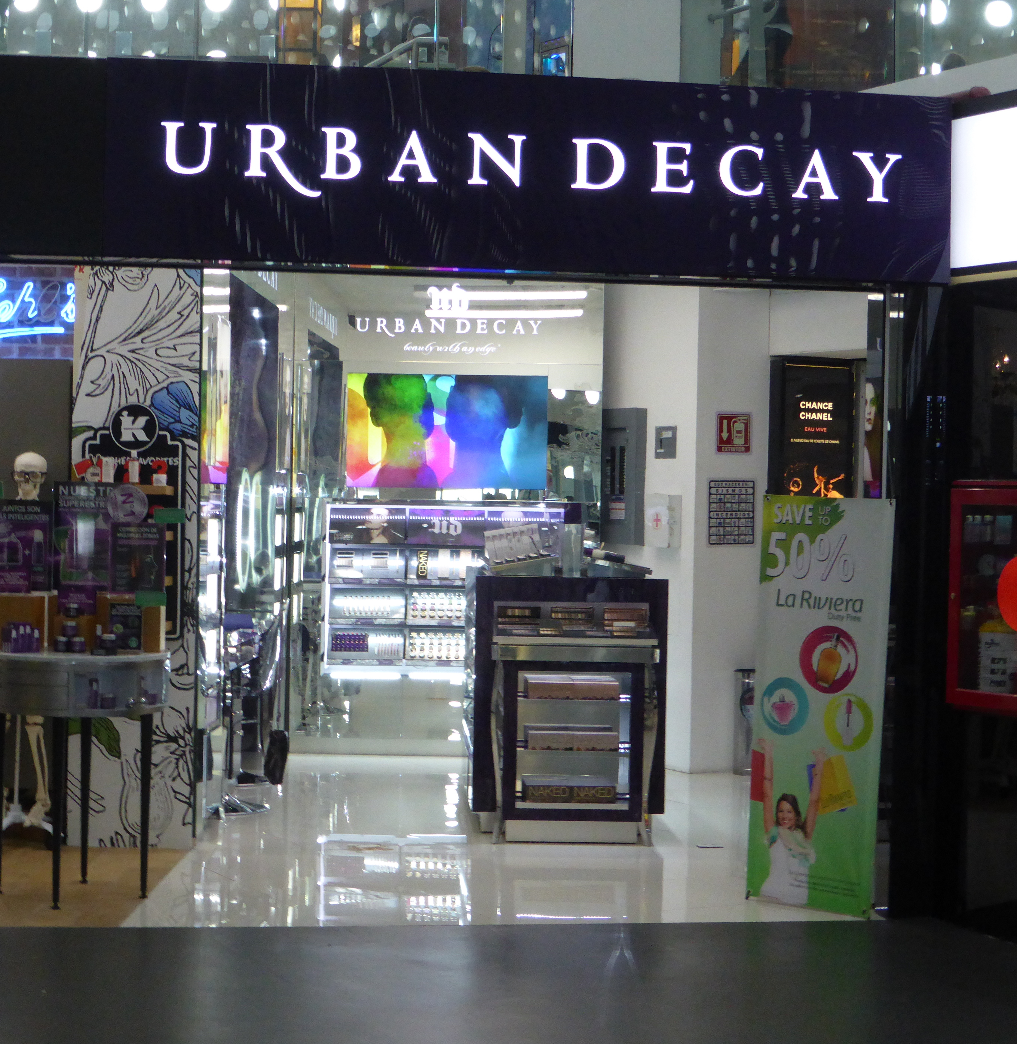 Wikimania 2015, Mexico City